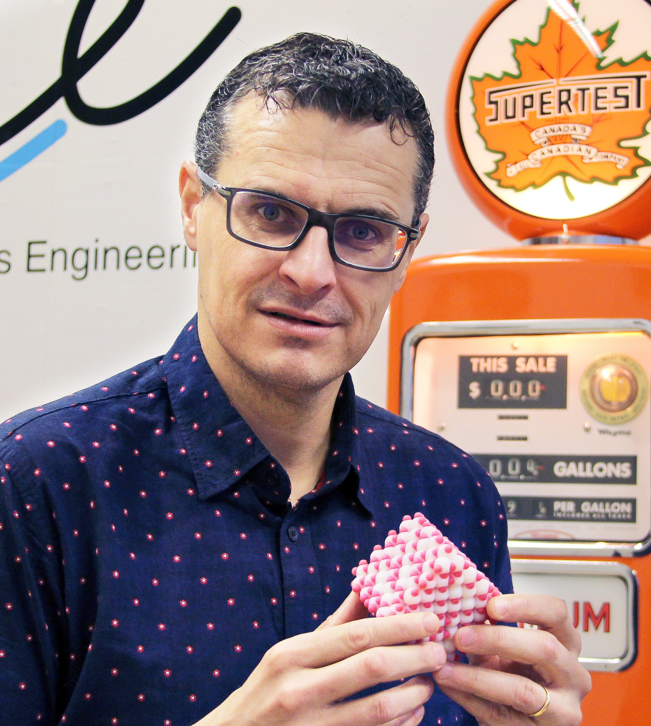 Portrait of Javier Pérez-Ramírez